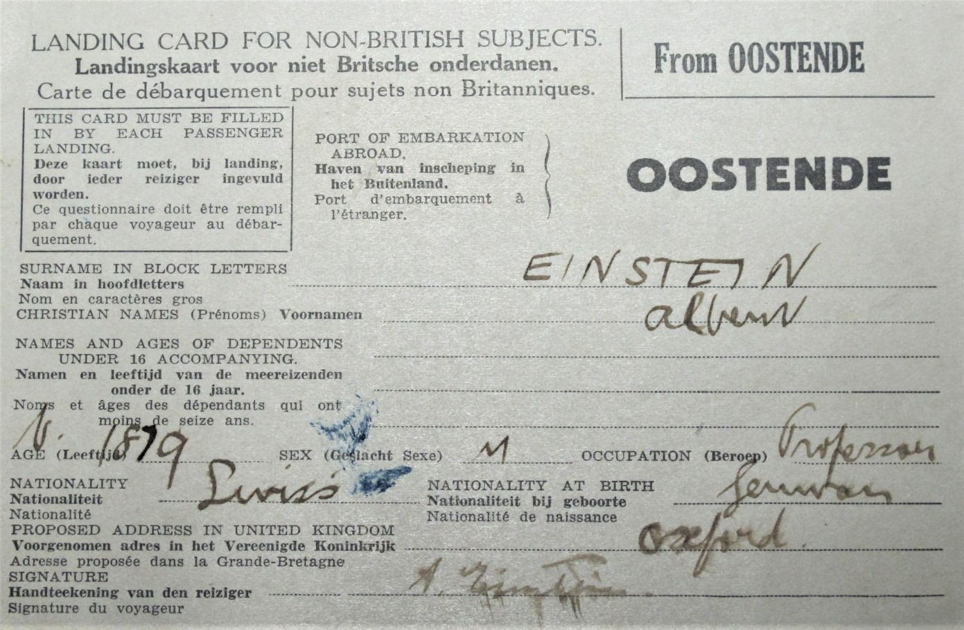 Immigration documents relating to Albert Einstein’s dramatic escape from Nazi Germany have been discovered and are on show for the very first time at the UK Border Agency National Museum. The landing card shown here is proof of Einstein’s journey from Belgium to Dover on 26 May 1933. Now, after nearly 80 years stored away at Heathrow Airport, the landing card issued to the ‘father of modern physics’ has been discovered by curators. Landing cards were completed by all passengers arriving in Britain. This card marks Albert Einstein's arrival at Dover on 26 May 1933 from Ostende, Belgium. He describes his occupation as professor and nationality Swiss. On the reverse he states to Immigration officers he is bound for Oxford.